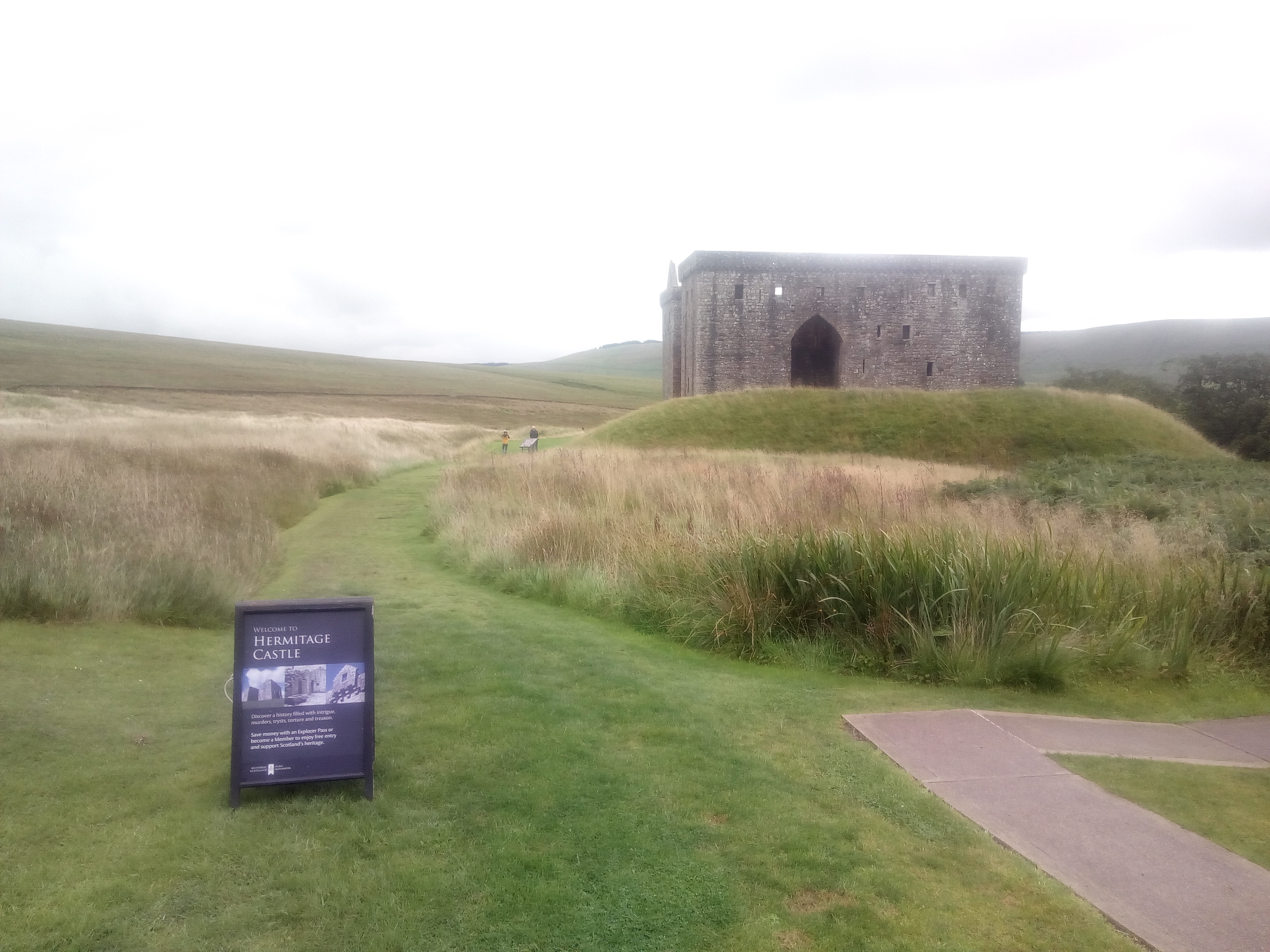 Hermitage Castle in the Scottish Borders was a fortress for the Scots and the English in turns